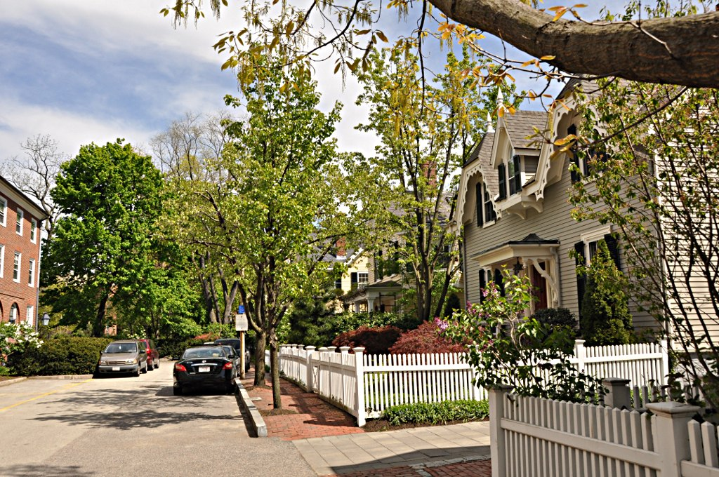 A photograph of Ash Street Place in the historic Ash Street Historic District of Cambridge, Massachusetts.